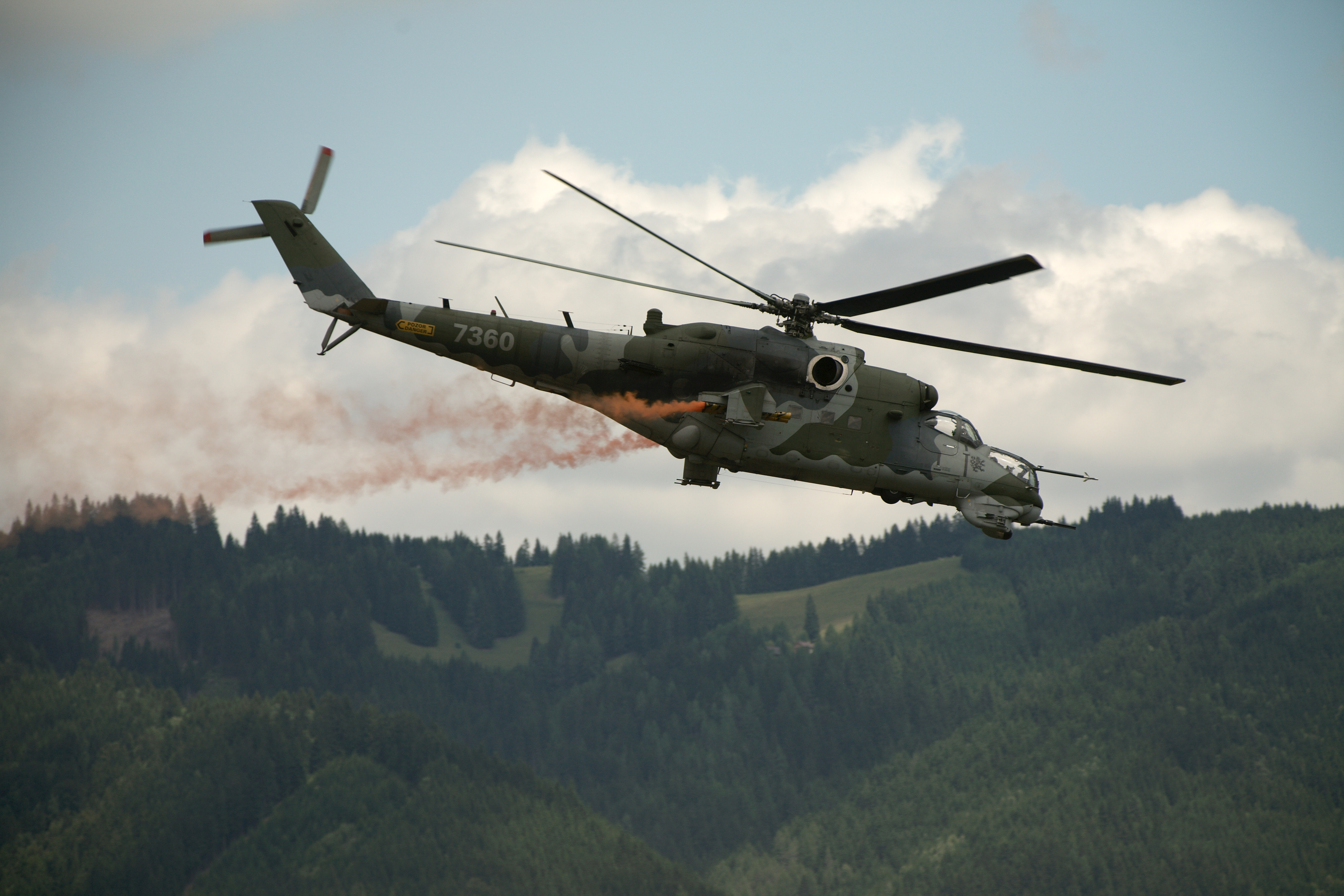 Mil Mi-24 at Airpower11